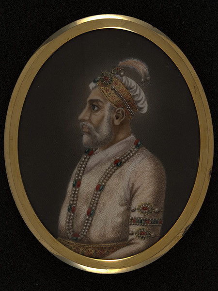 Bahadur Shah I was the 7th Mughal Empror.